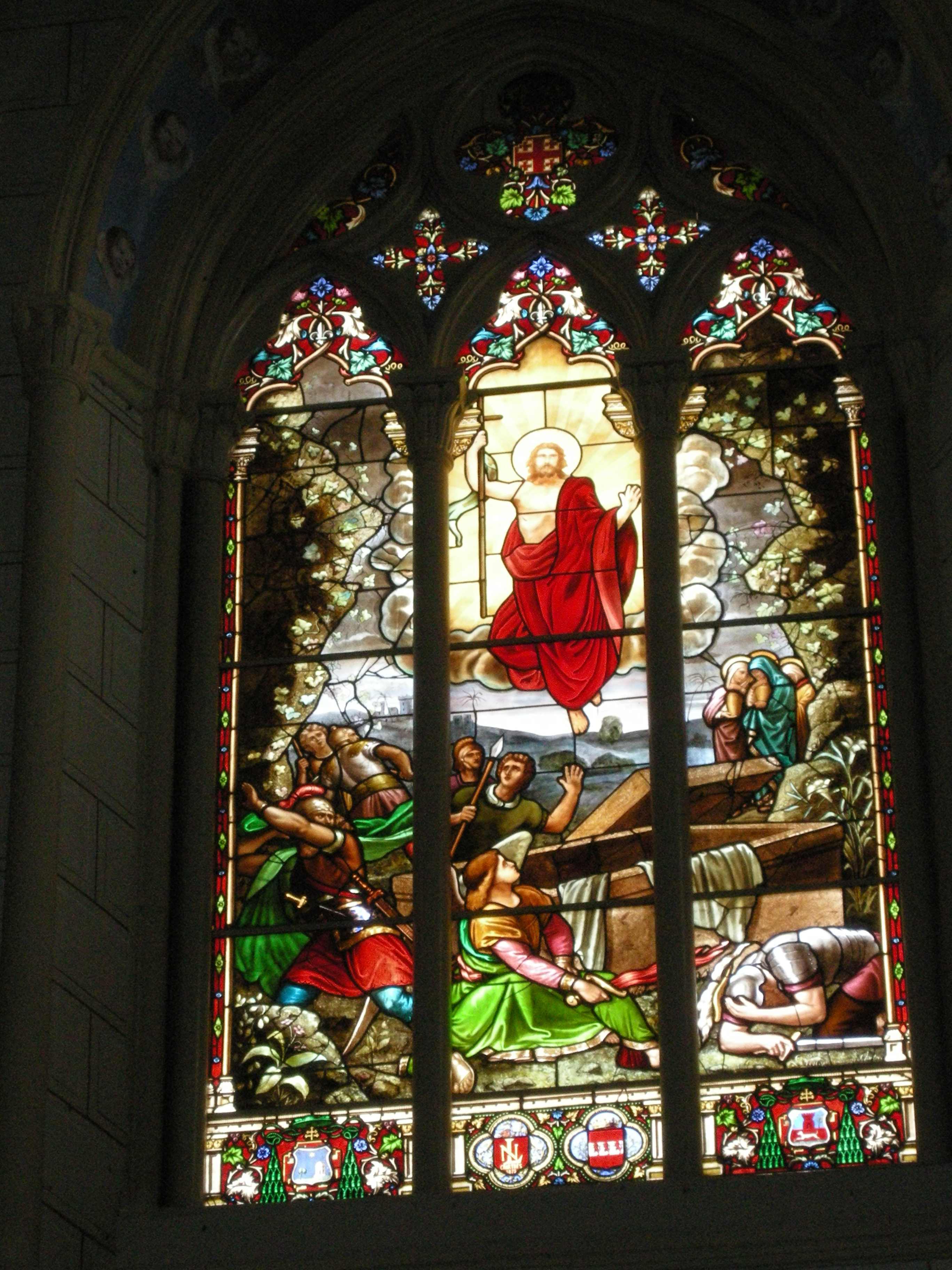 Visit in the Concathedral of the Latin Patriarch of Jerusalem, east window above the main altar by Lorin Co. of Chartres, France, built in 1876, reconstructed after war damage in 1948 again by Lorin.